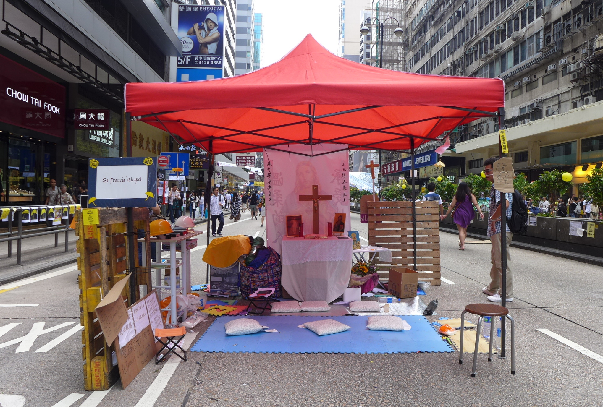 Mong Kok 2nd Generation Church in Nathan Road